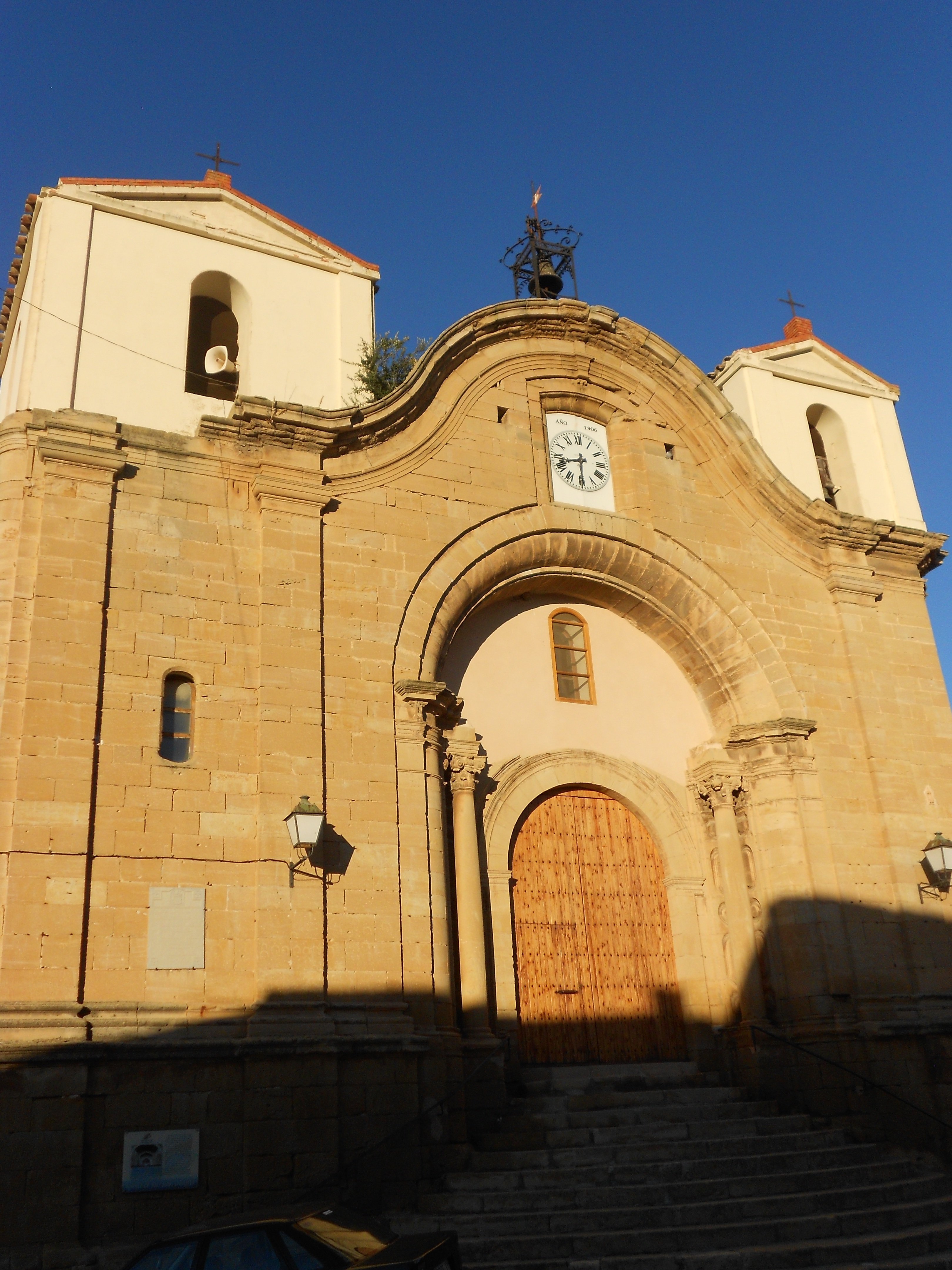 San Juan Bautista Church (Chiprana, Spain)